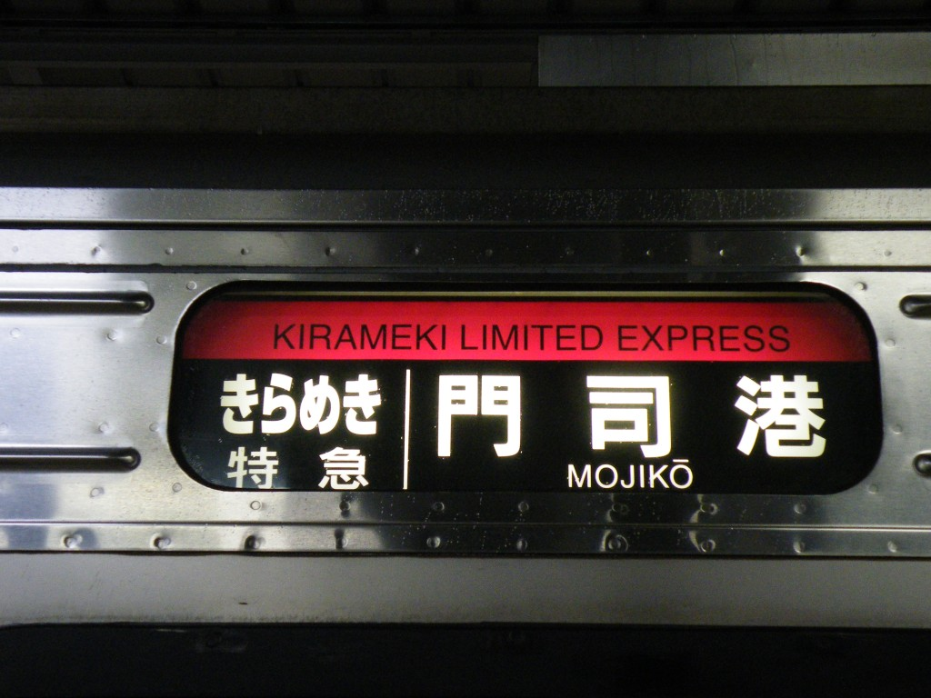 JRKyushu Ltd.Exp. "Kirameki" Sign